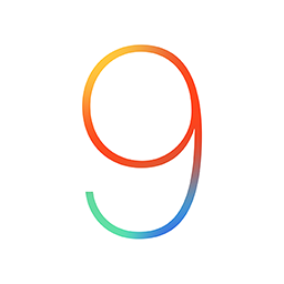 The Logo of iOS 9 operating system by Apple Inc.